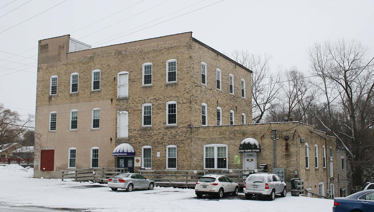 The Grafton Flour Mill, Registered Historic Place in Grafton, Wisconsin. This is the front of the building, on 14th Avenue. See also, File:Grafton_Flour_Mill_back_Dec09.jpg